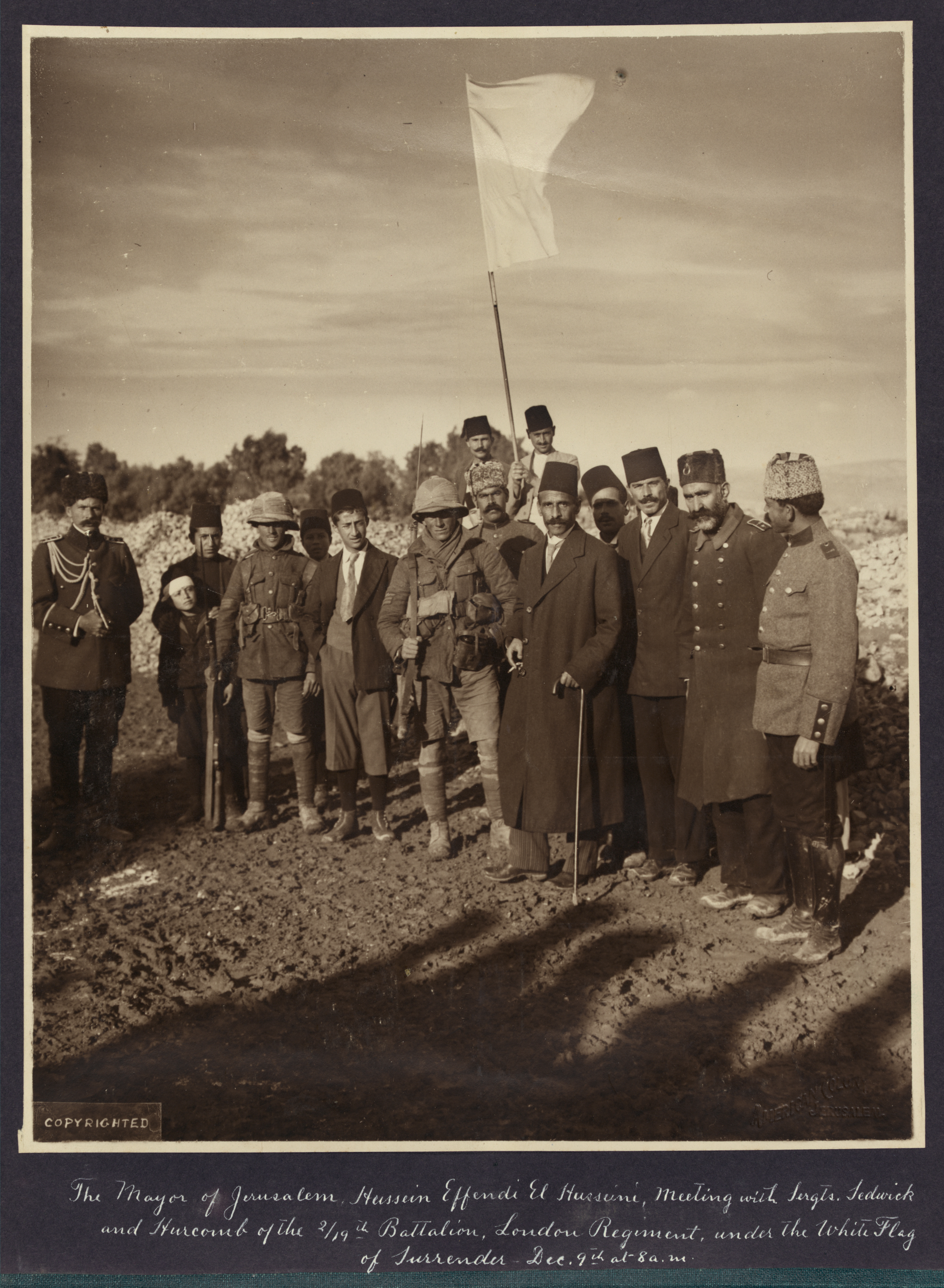 The Mayor of Jerusalem, Hussein Salim Al-Husseini (with walking stick and cigarette), with his party under a white flag-of-truce, attempts to deliver the surrender document signed by the Ottoman Governor Izzat Pasha just outside Jerusalem’s western limits on the morning of 9 December 1917 to Sergeants James Sedgewick and Frederick Hurcomb of 2/19th Battalion of the London Regiment (fourth and seventh from left in the picture). The surprised sergeants, who were scouting ahead of General Sir Edmund Allenby's main force, refused to take the letter, as did several more arriving troops. The Mayor was accompanied by a number of officials including his nephew Toufiq Saleh Al-Husseini, police inspectors Abdelqadir Al-Alami and Ahmad Sharaf (Second from right in the picture), policemen Hussein Al-Assaly and Ibrahim Al-Zaanoun, as well as a group of young men among whom were Rushdi Mohamed Al-Muhtada, Jawad Ismail Al-Husseini, and Hanna Iskandar Al-Lahham, who carried the white flag. The Mayor was also accompanied by a young photographer named Lewis Larsson, who later became Swedish Consul in Palestine, and whose role was to record the ceremony. It began to look to the Jerusalemites as if nobody would let them surrender, until Brigadier-General C.F. Watson, commanding 180th Infantry Brigade entered the town, accepted the documents, and Larsson could photograph the event properly.